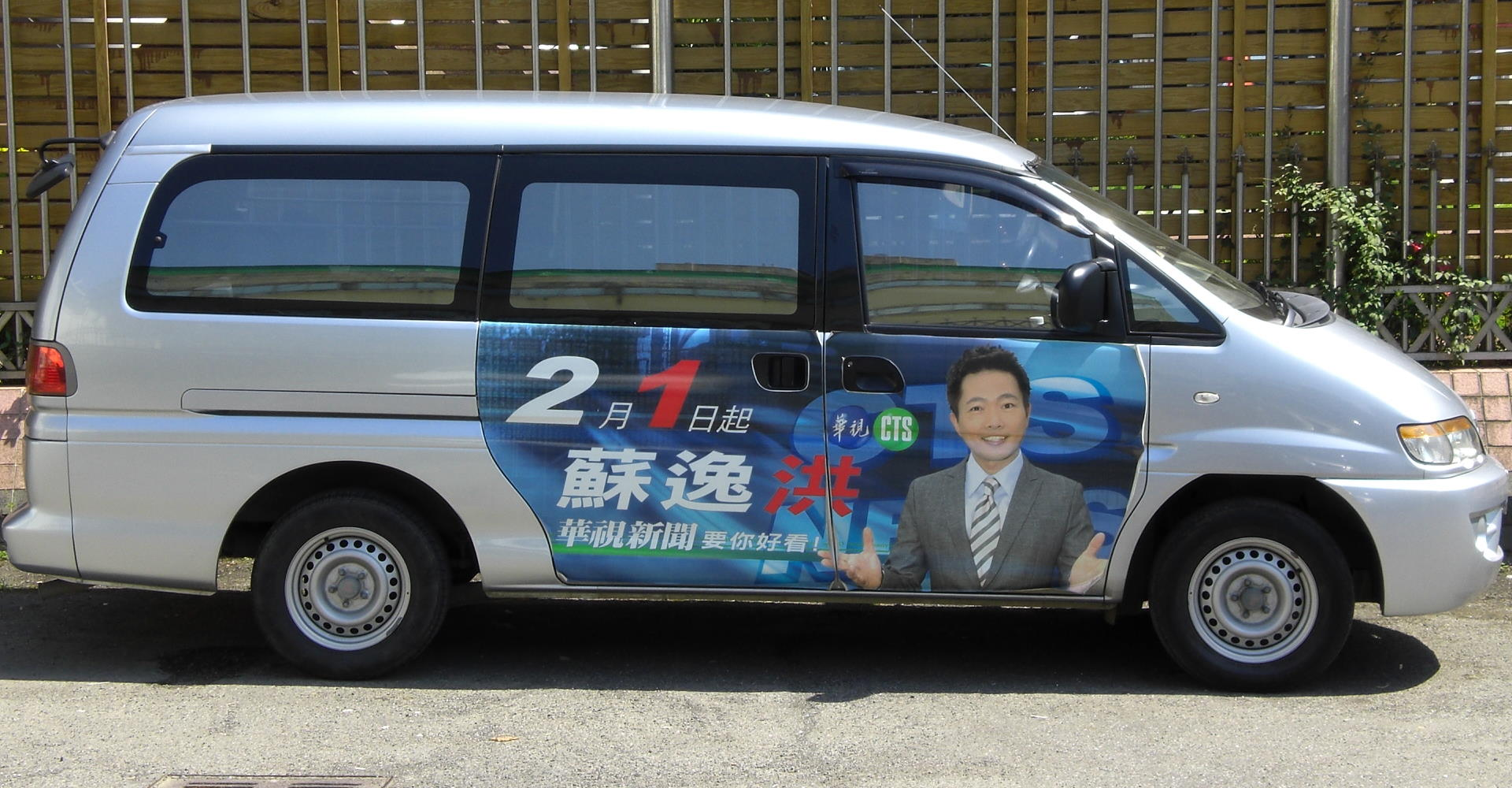 CTS News vehicle with wrap advertising of Max Su.